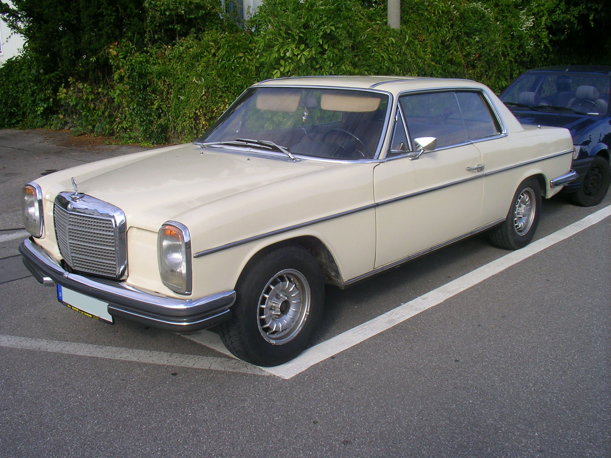 Mercedes Benz W115 280CE